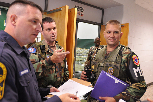 Members of the Virginia Defense Force, Shelter Augmentation Liaison Team provide assistance to the Virginia State Police during the 2011 State Managed Shelter Exercise Oct. 11 on the campus of Richard Bland College near Petersburg. The members of the SALT will serve as liaisons between the VSP and the Virginia Department of Military Affairs, as well as faciliate the introduction of Virginia National Guard forces at State Managed Shelters in the event of an actual activation of shelters.